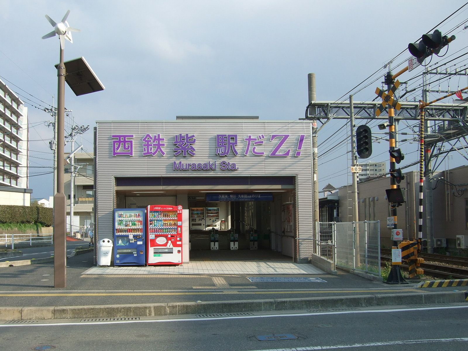 Nishitetsu Murasaki Station (Momoiro Clover Z live style)